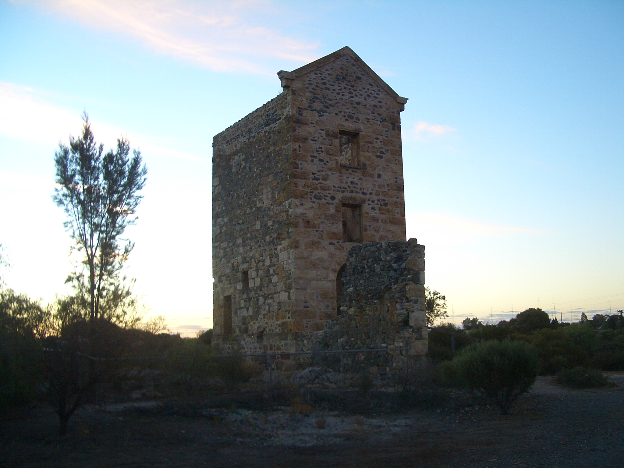 A partially ruined building at Wallaroo Mines (Kadina, SA)